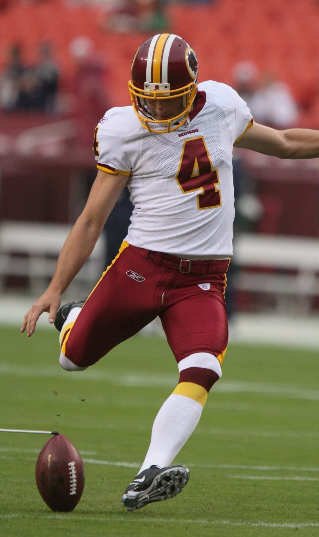 Dave Rayner kicking for the Washington Redskins during a 2009 preseason game.